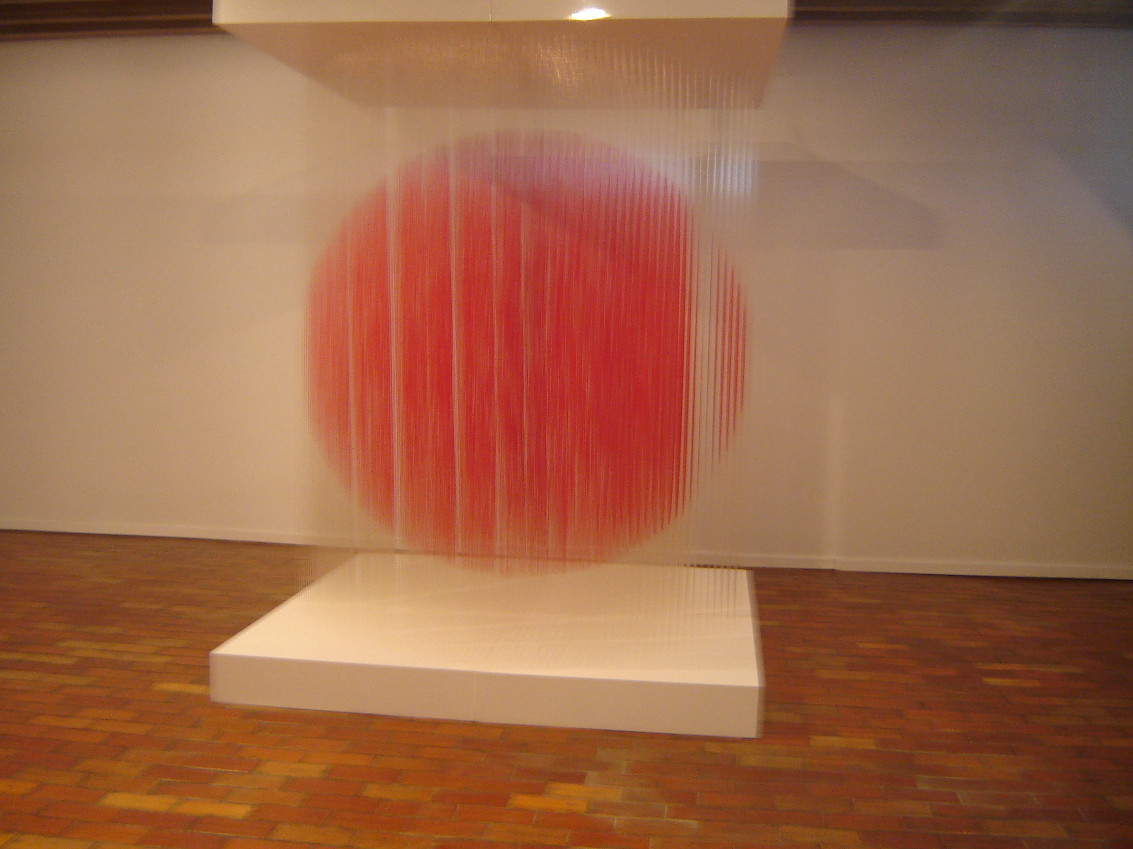 Soto sphere at the Jesús Soto Museum of Modern Art.